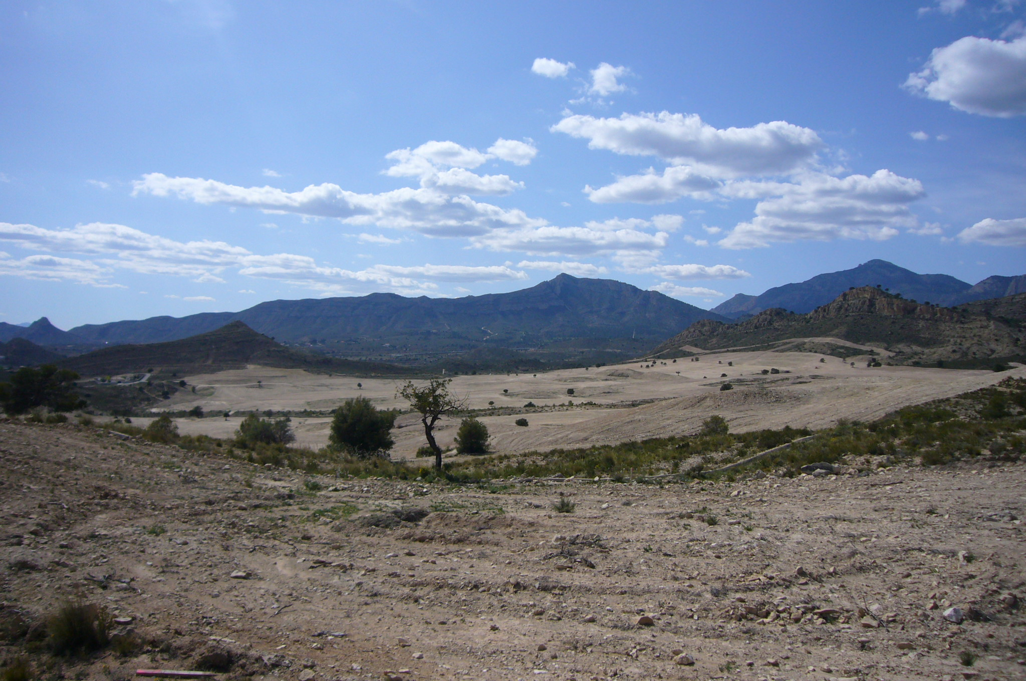 Valley area of the razed Sabinar for the future golf course, hotel complex and apartments.